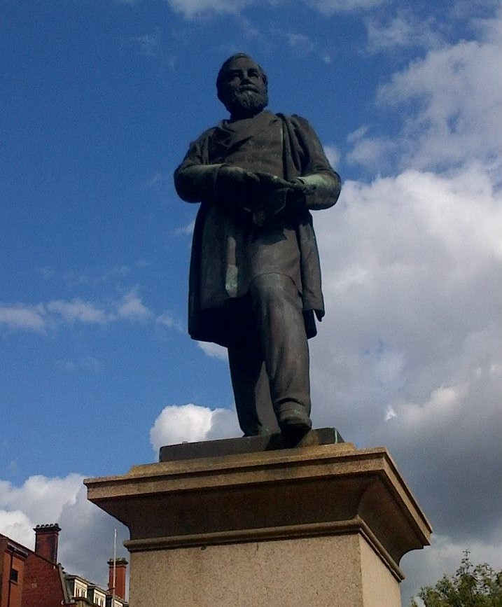 The Henry Bolckow statue which stands in Exchange Square, Middlesbrough was made by D. W. S. Stevenson, and unveiled by Lord Frederich Cavendish on 6 October 1881.